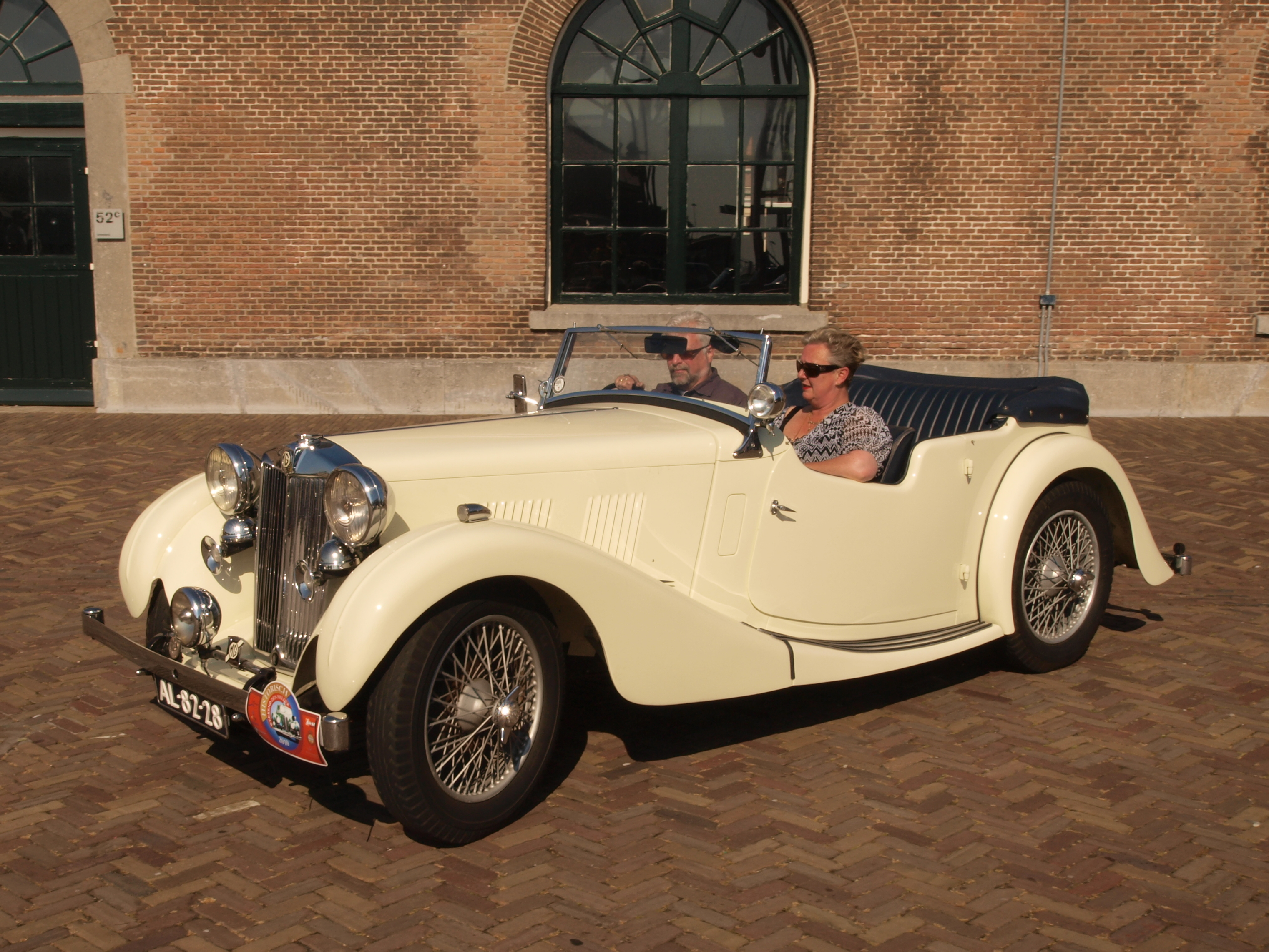 Photographed at Den Helder, The Netherlands. OLYMPUS DIGITAL CAMERA